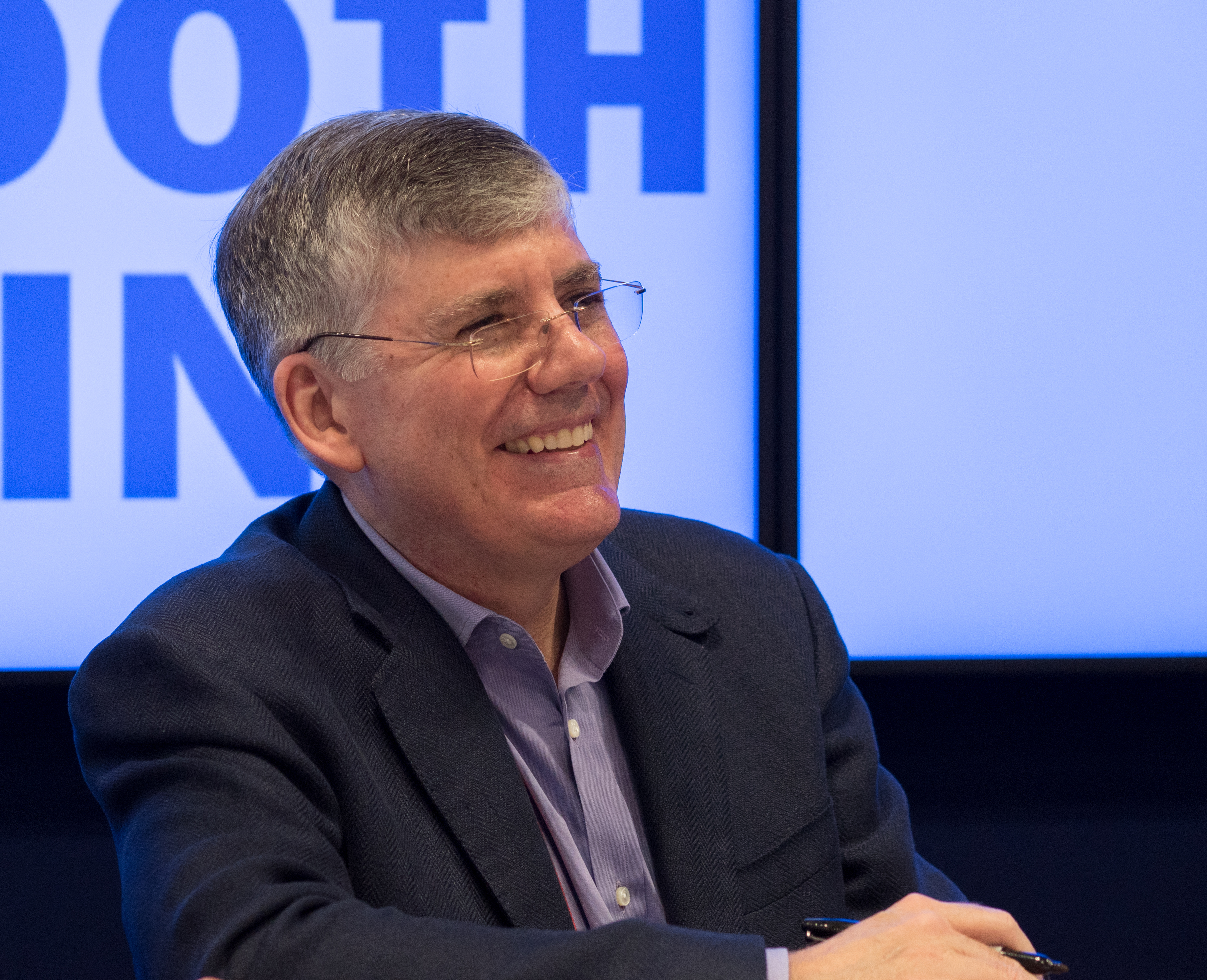 Rick Riordan BookExpo America 2018 at the Javits Convention Center in New York City.